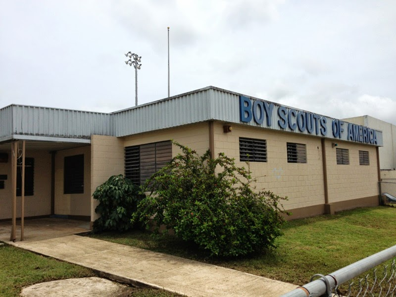 Puerto Rico Council